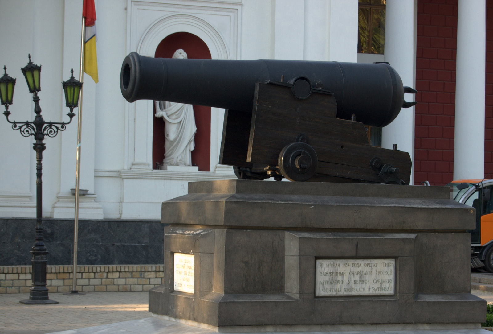 Cannon in Odessa, Ukraine